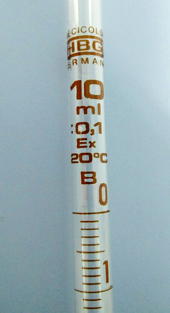 Grade B pipettes generally has twice the error as compared to grade A and AS pipettes